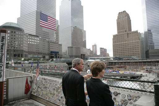 President George W. Bush and Laura Bush look over the World Trade Center site Sunday, September 10, 2006, during a visit to Ground Zero in New York City to mark the fifth anniversary of the September 11th terrorist attacks.